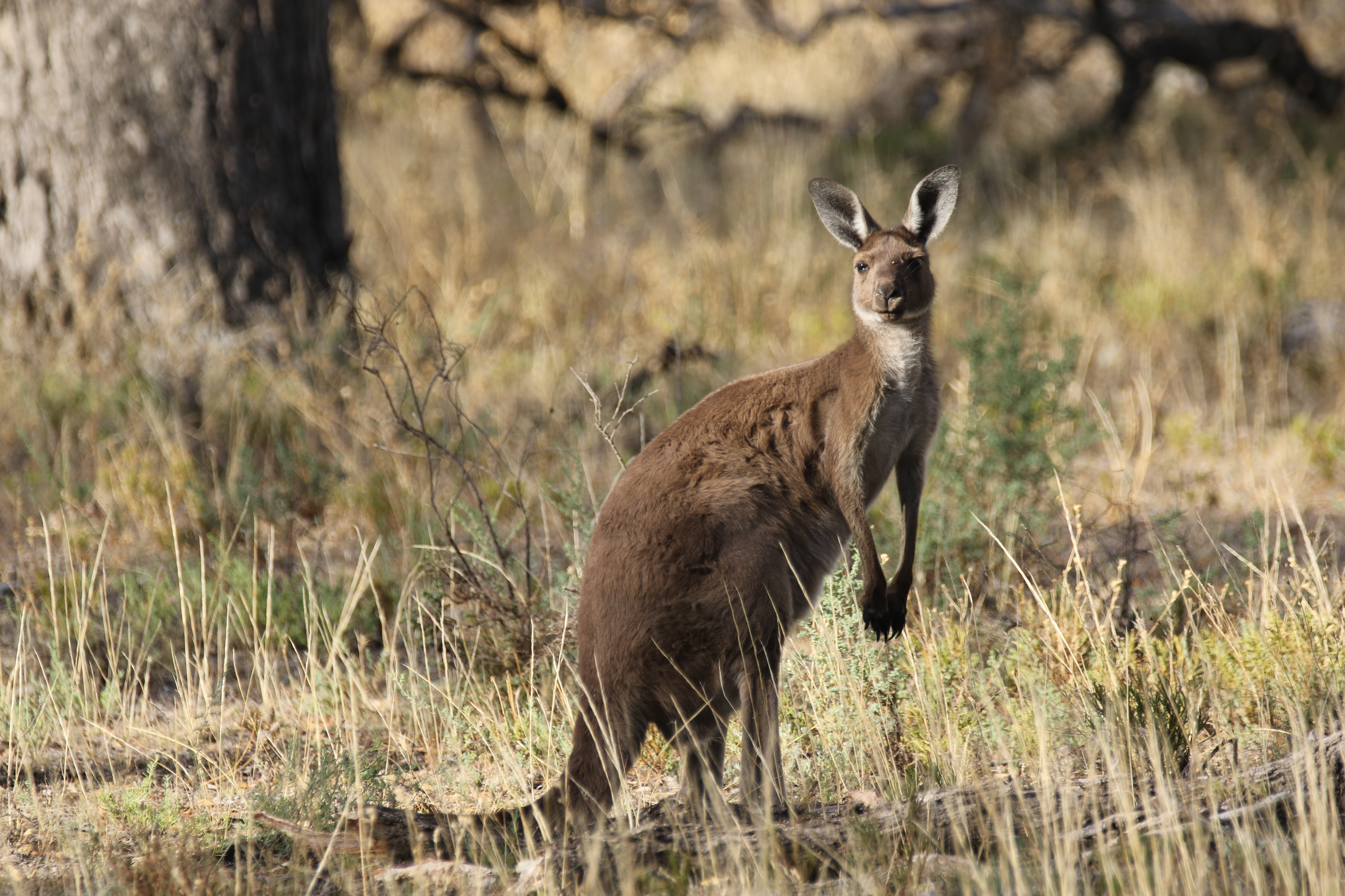 Macropus fuliginosus Desmarest, 1817, Western Grey Kangaroo, Wyperfeld National Park, VIC, 24 January 2017